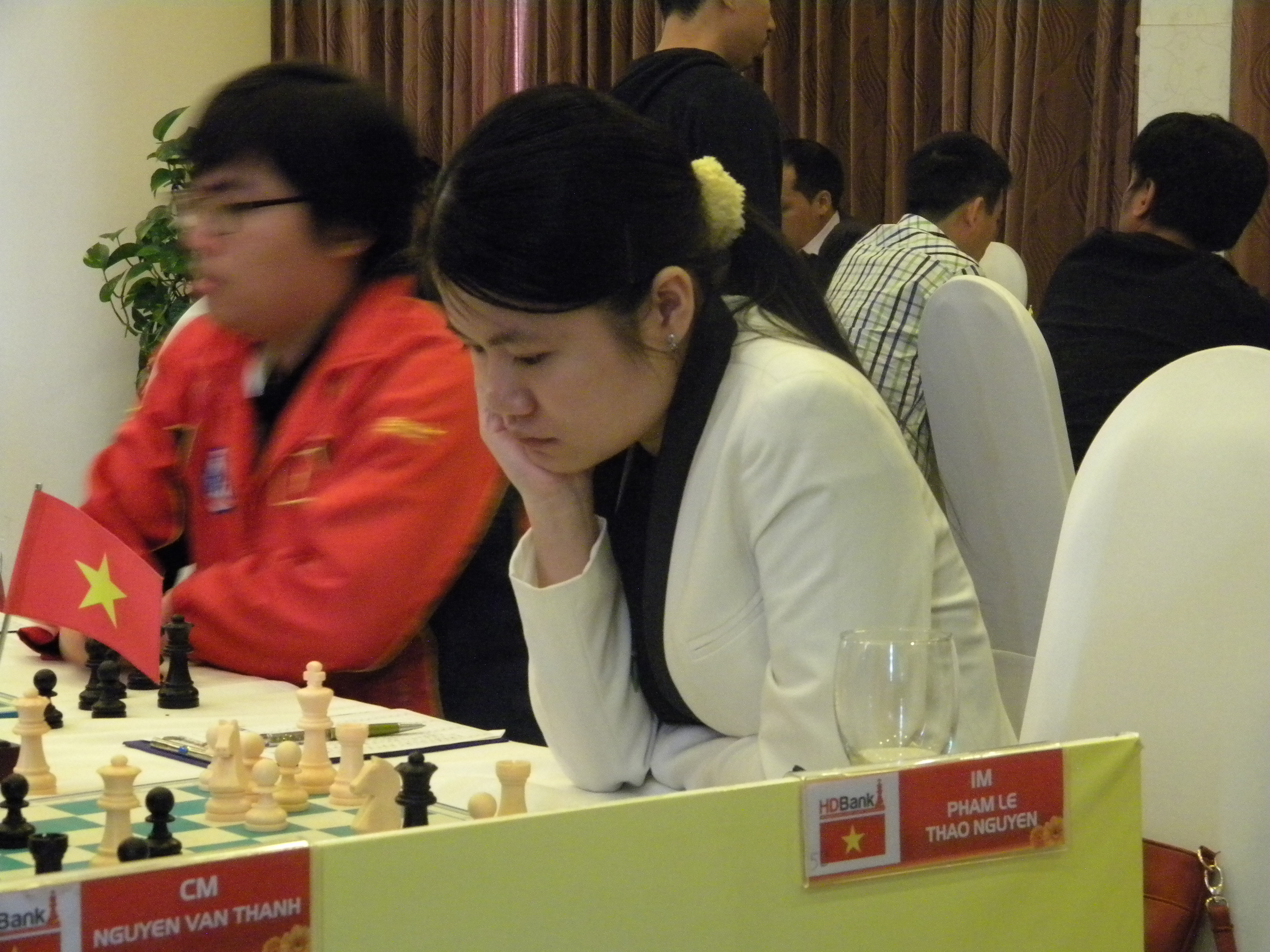 Pham Le Thao Nguyen in round 3, HDBank chess tournament 2017